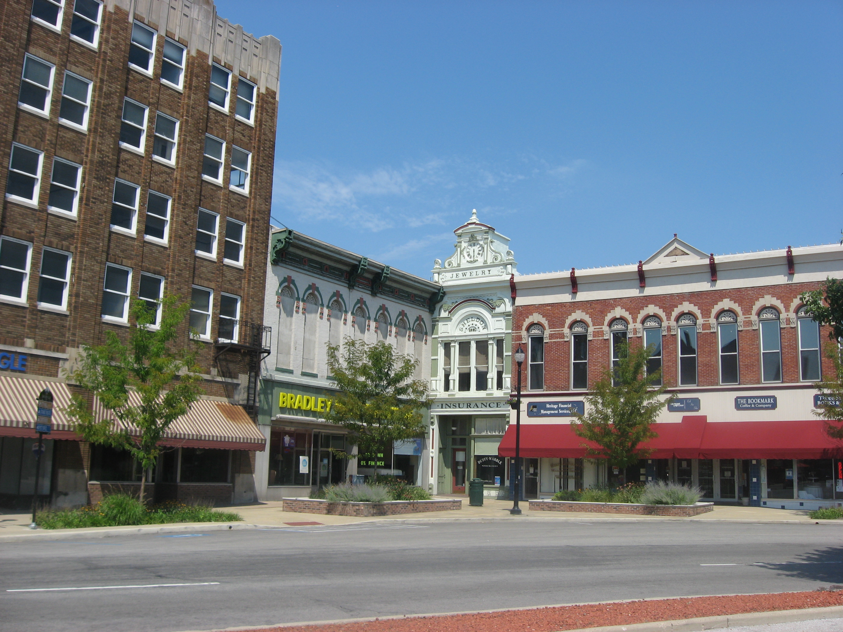 Buildings on the northwestern corner of the public square in Shelbyville, Indiana, United States. Along with the rest of the public square, these buildings are part of the Shelbyville Commercial Historic District, a historic district that is listed on the National Register of Historic Places.